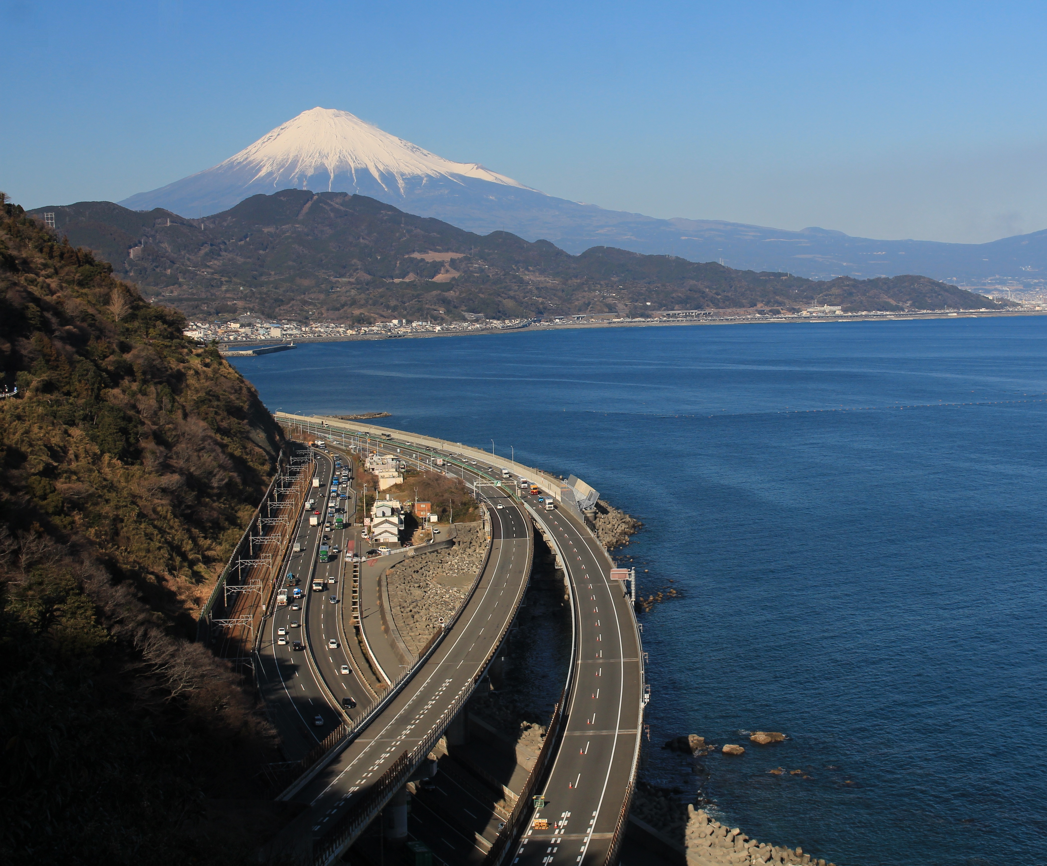 Mount Fuji seen from Satta Pass in Shizuoka Prefecture, Japan. Canon EOS Kiss X7i